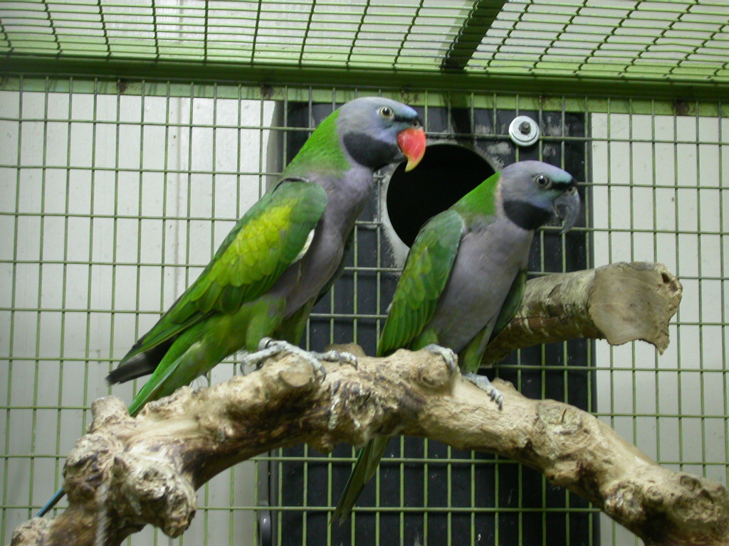 Derbyan Parakeet; a pair in a cage with a nestbox.